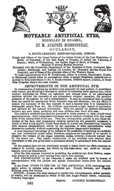 Advertise from Auguste Boissonneau